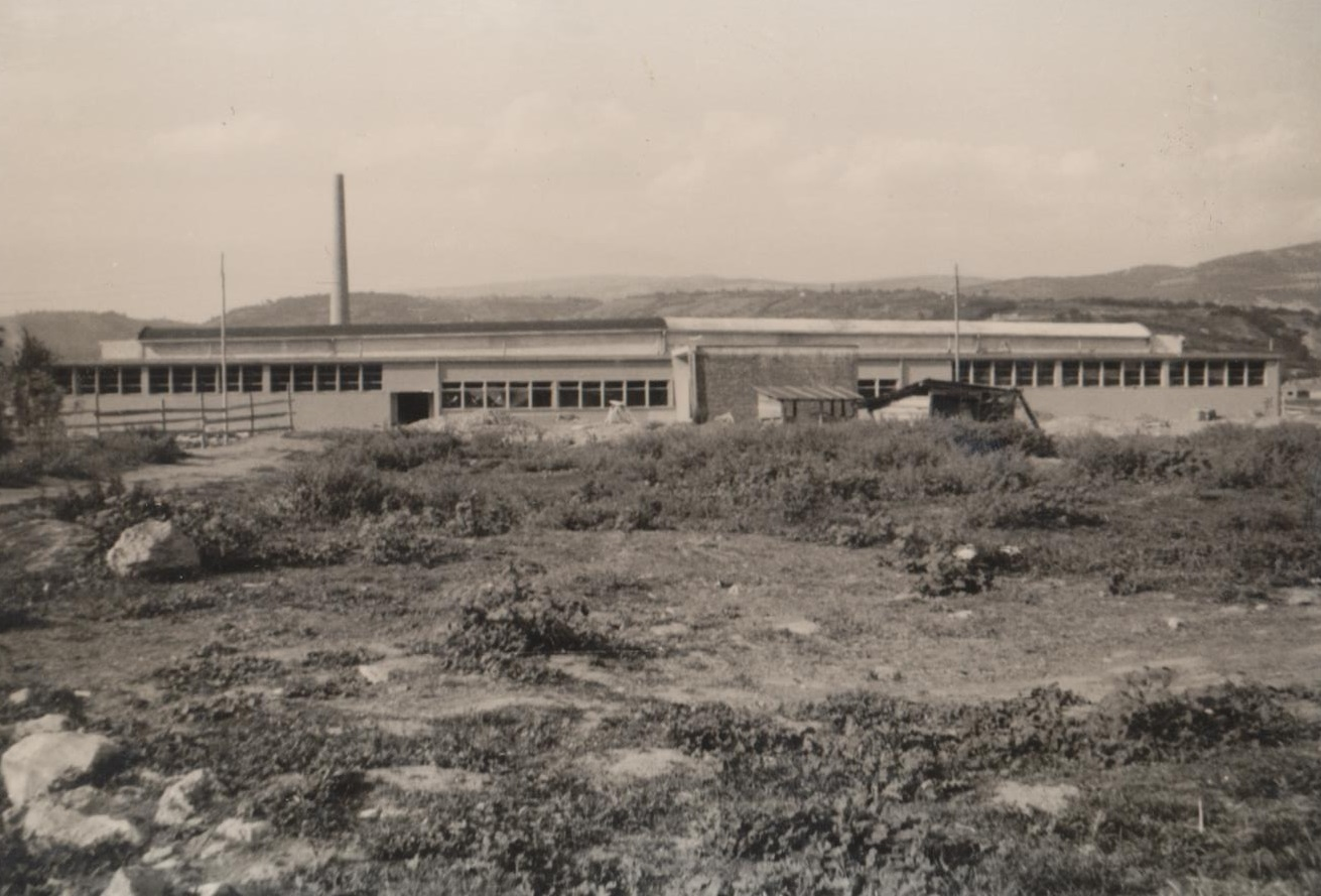 Firm Tigar Pirot in 1965.